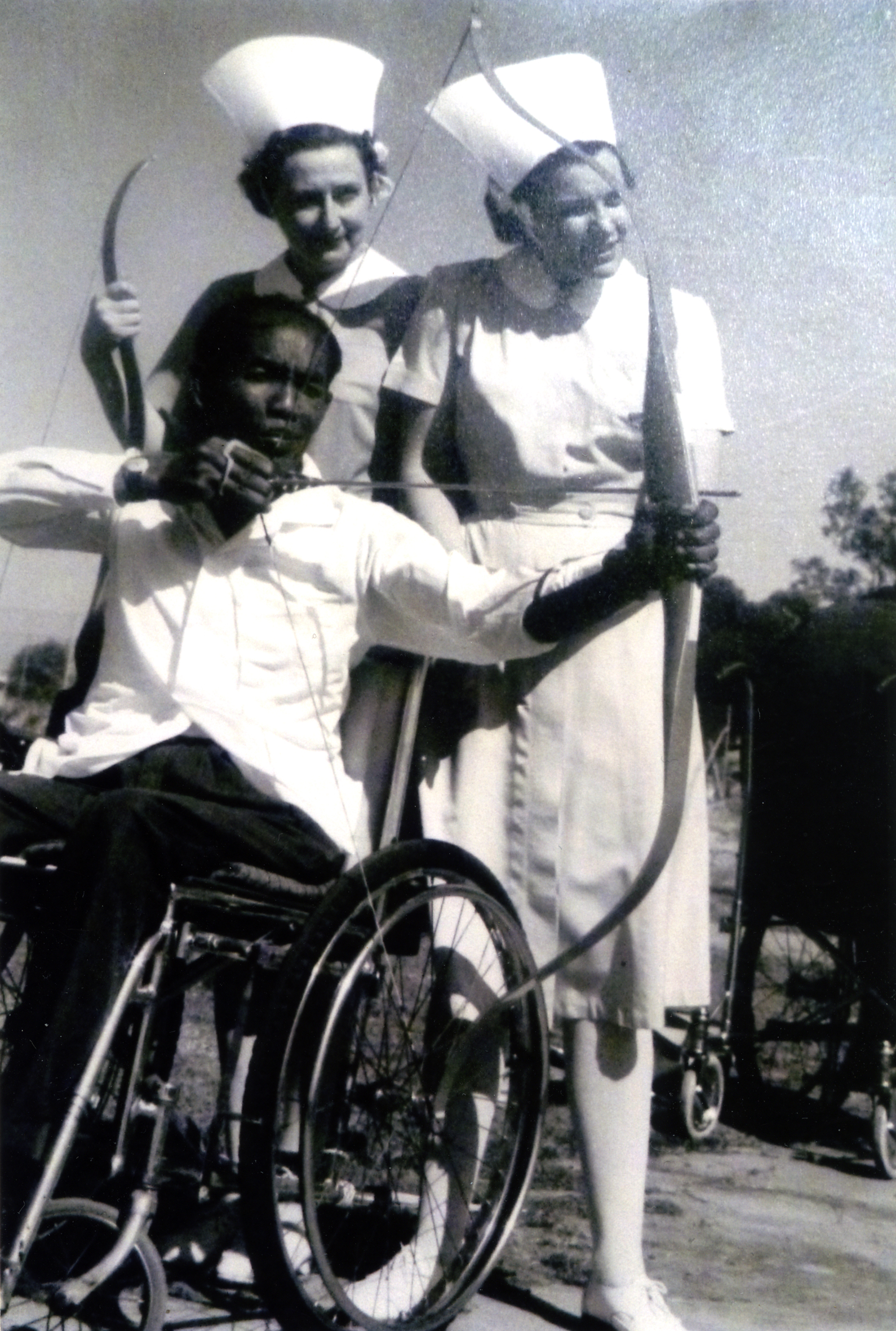 Janet Tyler (right), Australian Paralympic Team nurse at the 1968 Paralympic Games in Tel Aviv, with Sister Quigley and athlete Ali Bin Salleh at a sporting event for paraplegic athletes in Adelaide in the 1960s